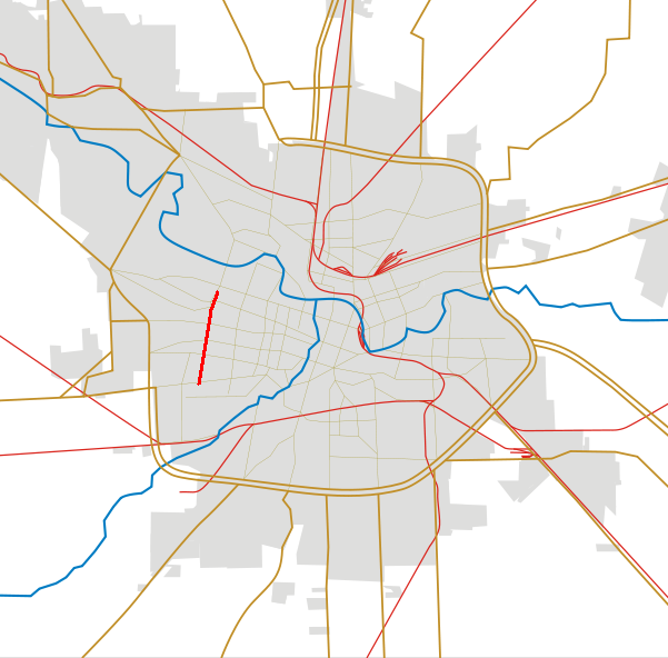 Maestro Vidal street of the Córdoba City